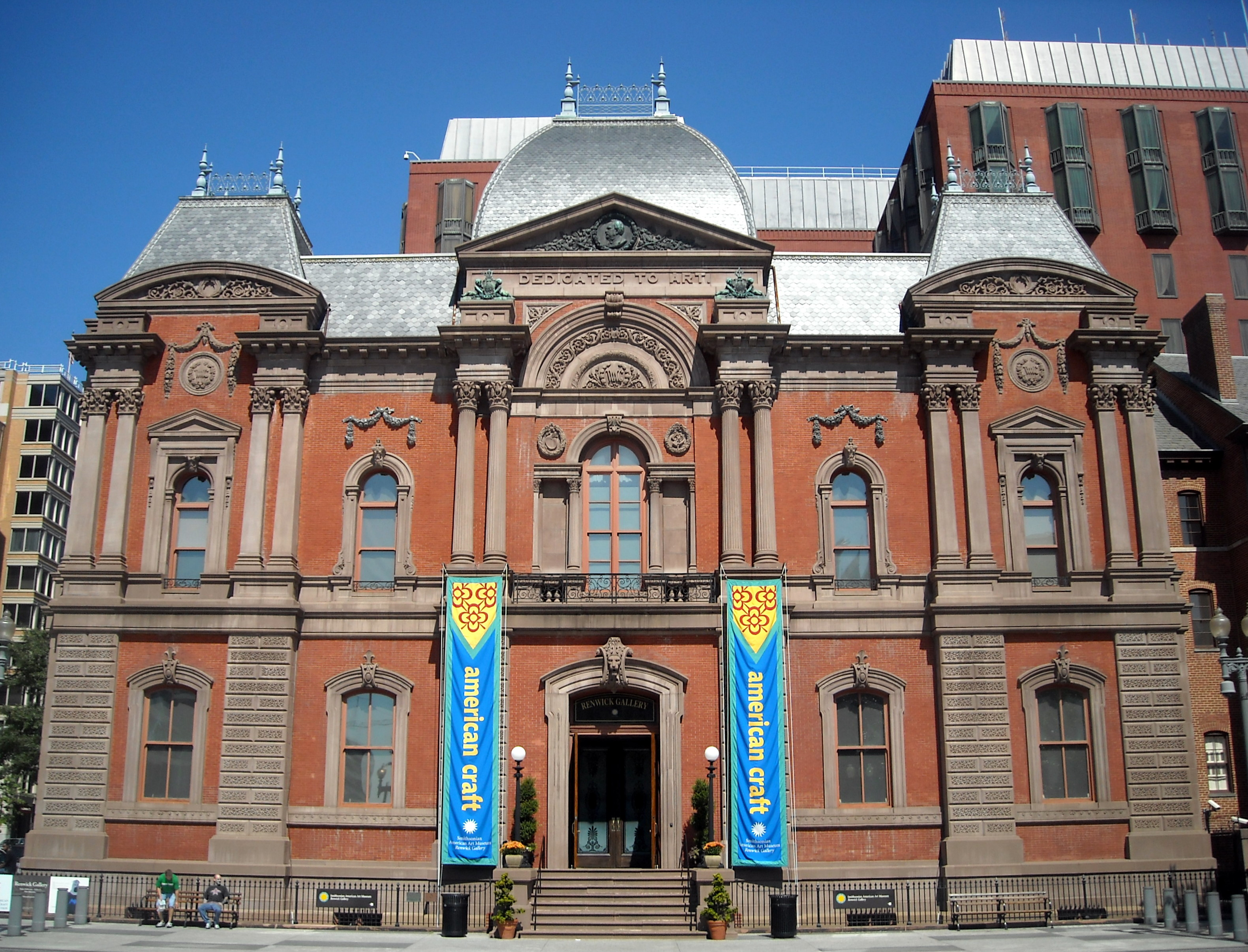 The Renwick Gallery, a branch of the Smithsonian American Art Museum, located at 1661 Pennsylvania Avenue, NW in Washington, D.C.